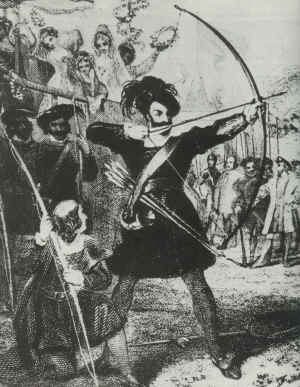 Illustration depicting King Henry VIII at an archery tournanment. Oxford, Bodleian Library.